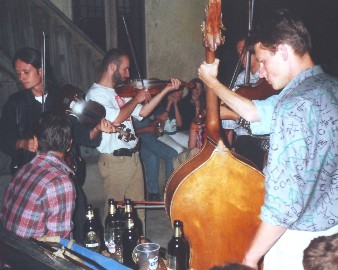 Musicians in Sâncraiu (hu. Kalotaszentkirály)